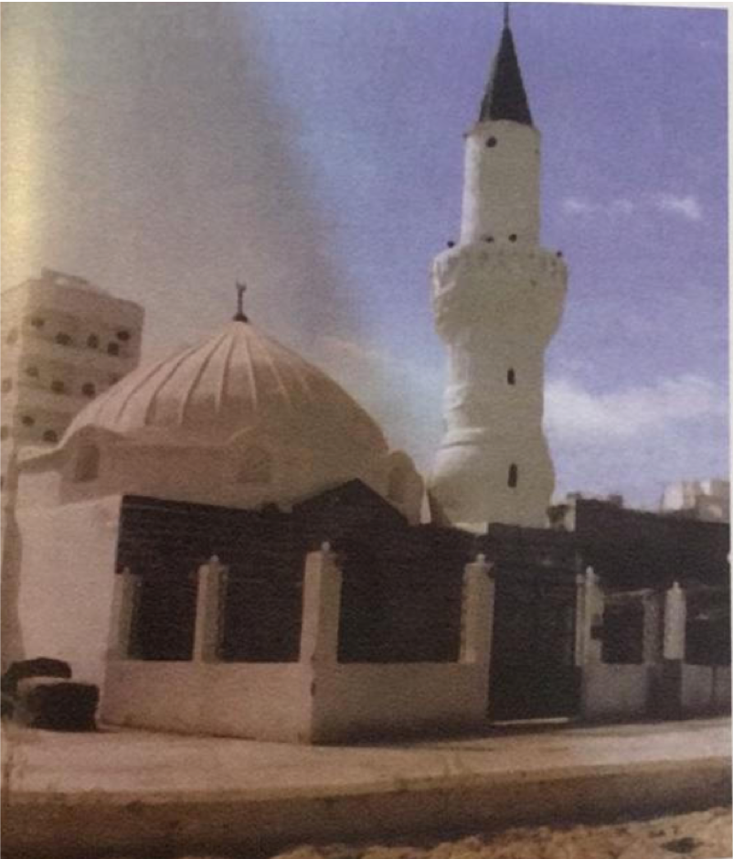 Mosque of Sayyidina Abu Bakr, may Allah be pleased with him after the completion of its restoration in 1429-1430 AH by the Heritage Foundation within the project of the urban.